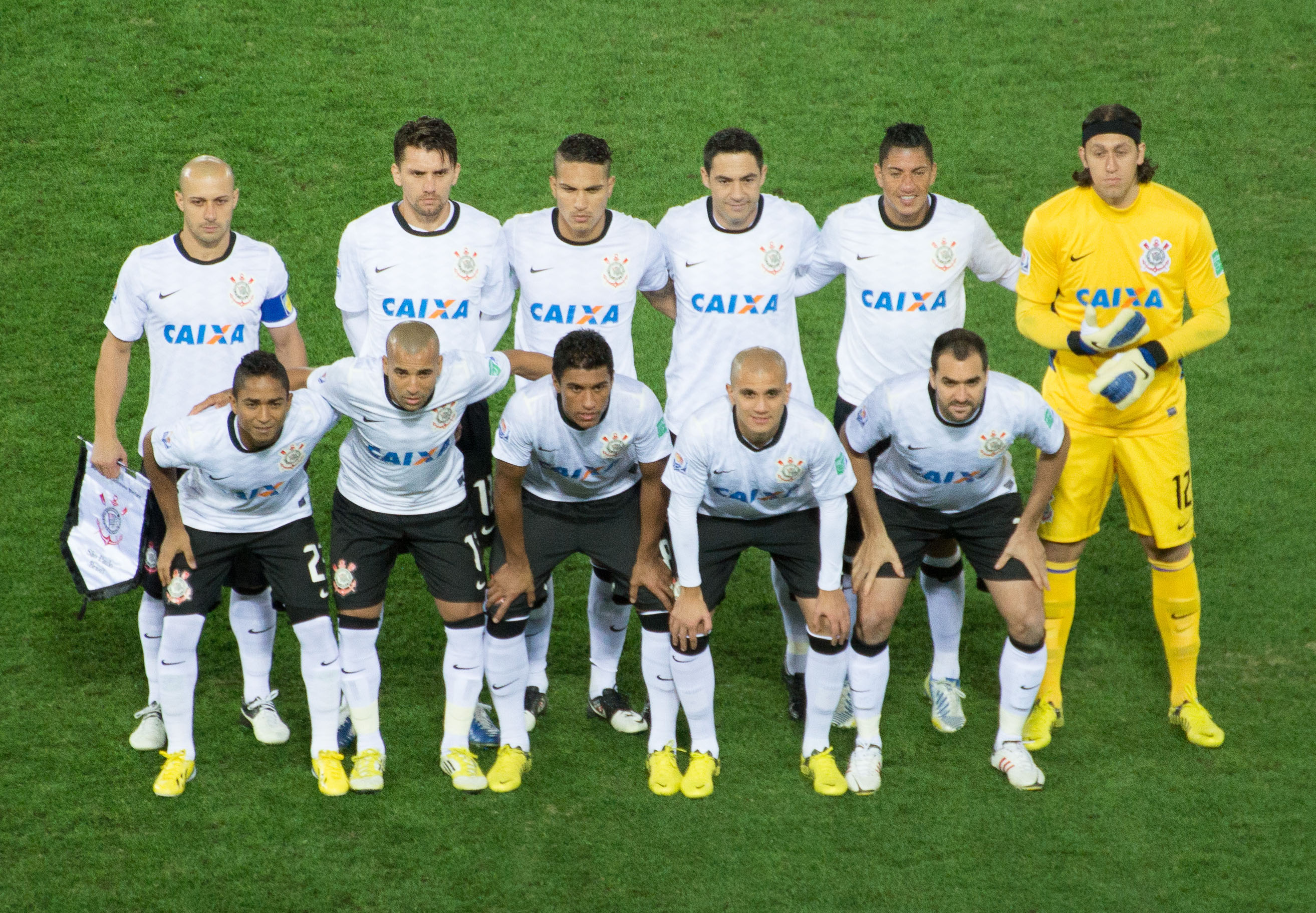 Starting XI of Corinthians of Brazil